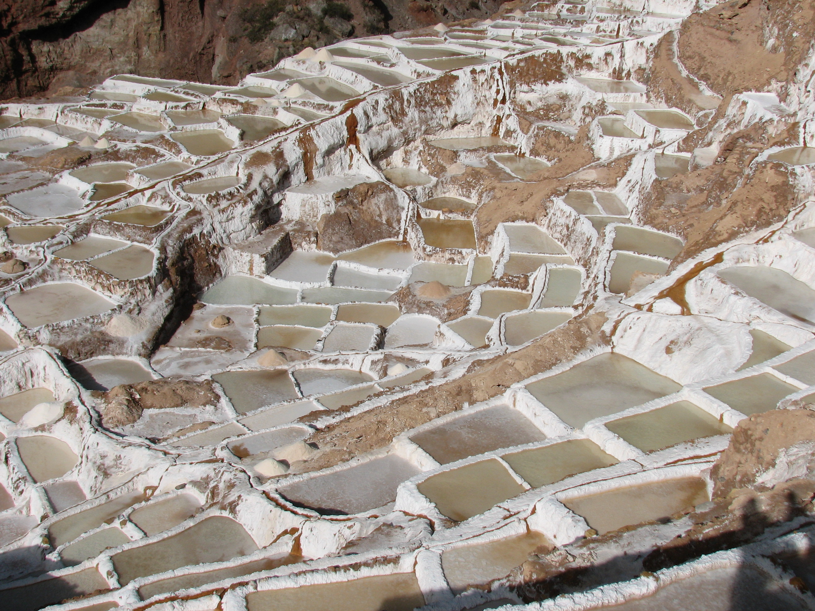 Inca salt pans in Maras, Peru